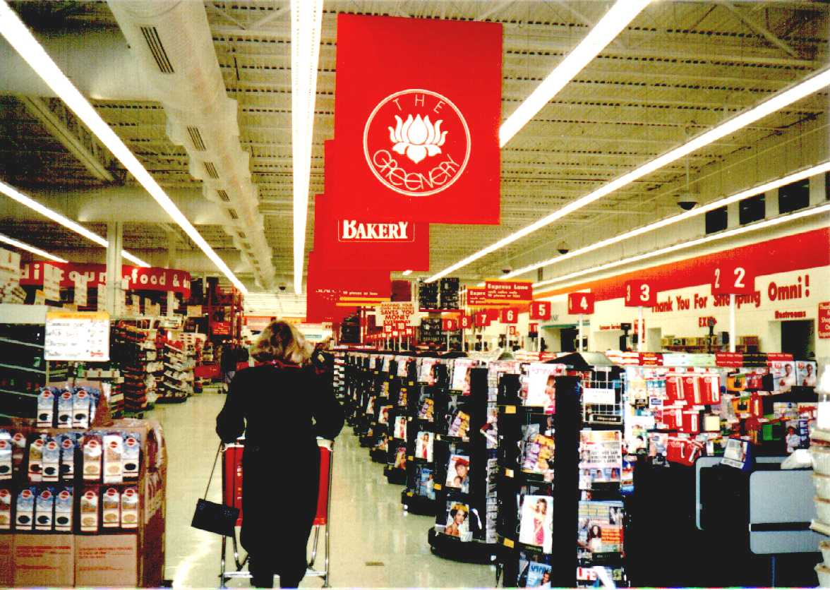 This is a personal photo for Omni Superstore. I release it to public domain.